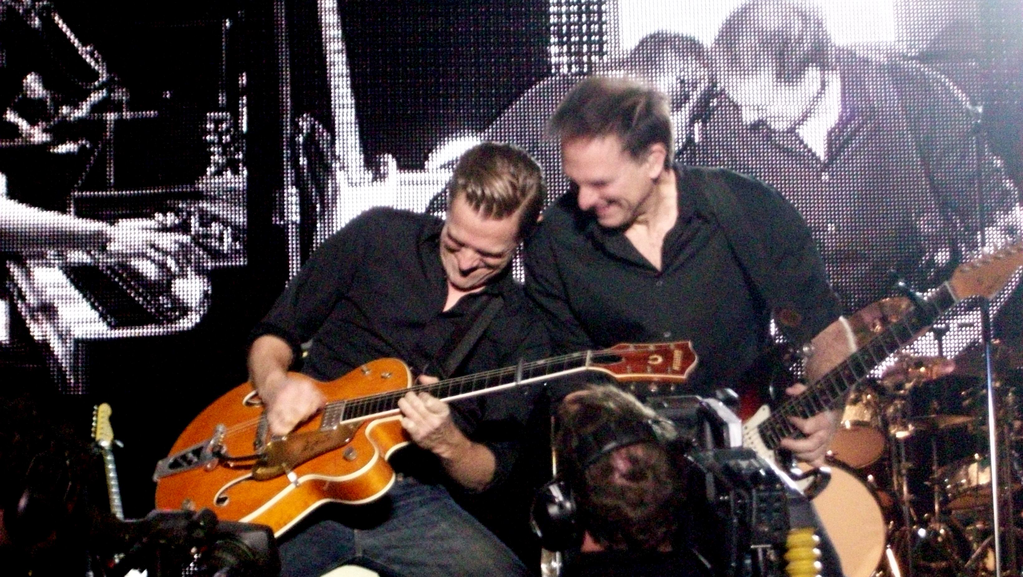 A snap of Bryan Adams and Keith Scott in action in Palace Grounds, Bangalore (India), in February 2011, clicked by me.